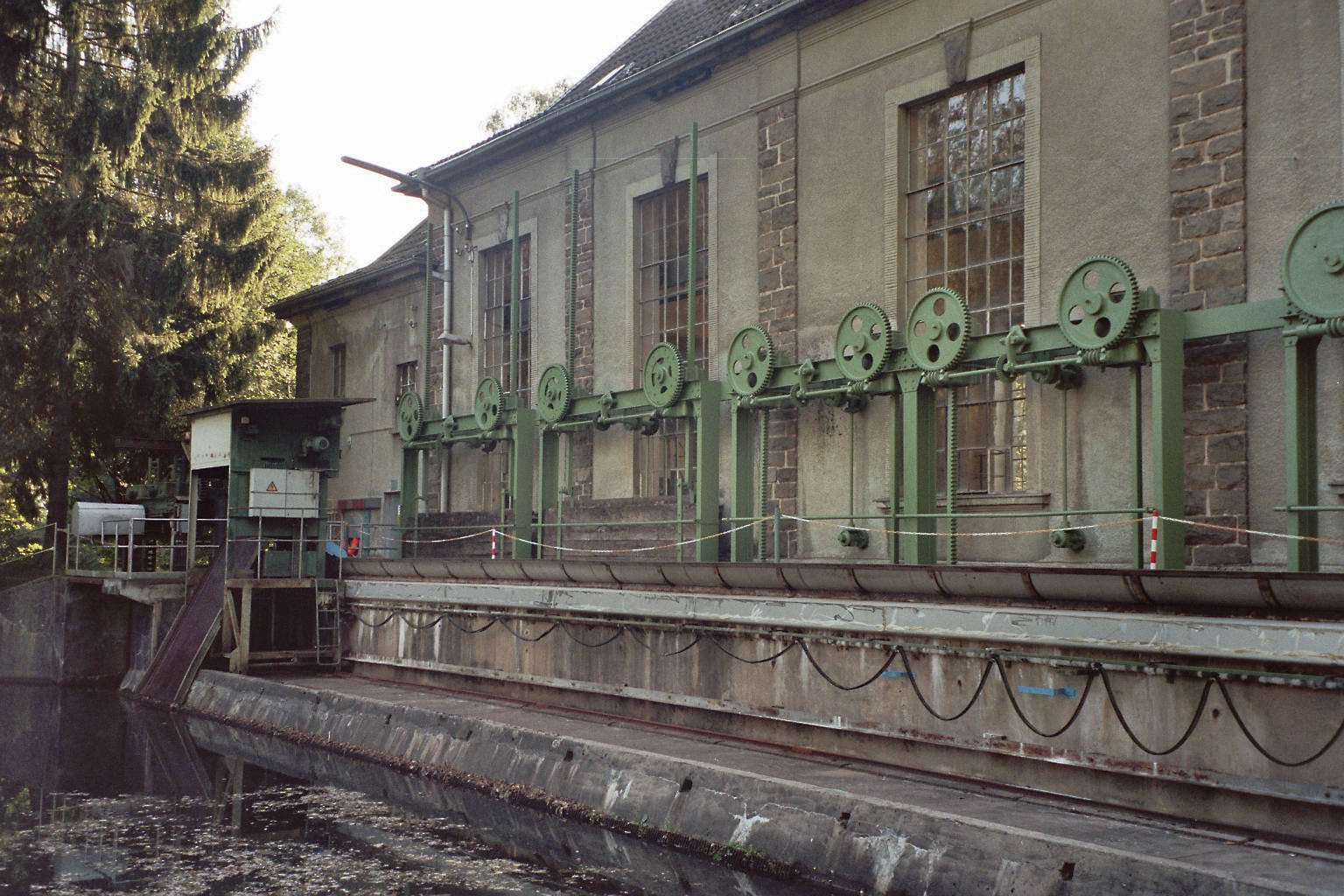 A so called Einlaufschütz of a water power plant